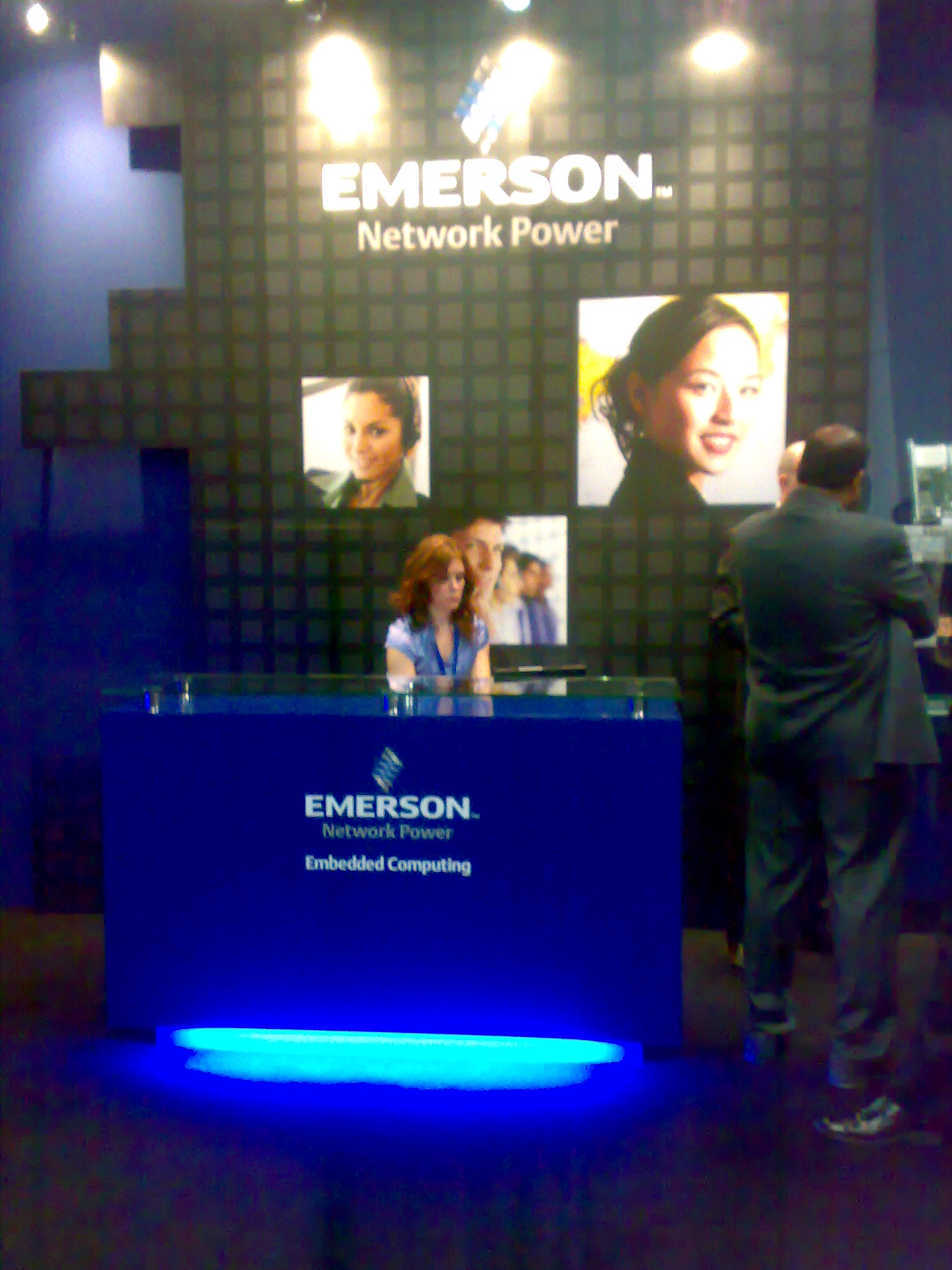 Emerson Stand at GSMA Barcelona 2008